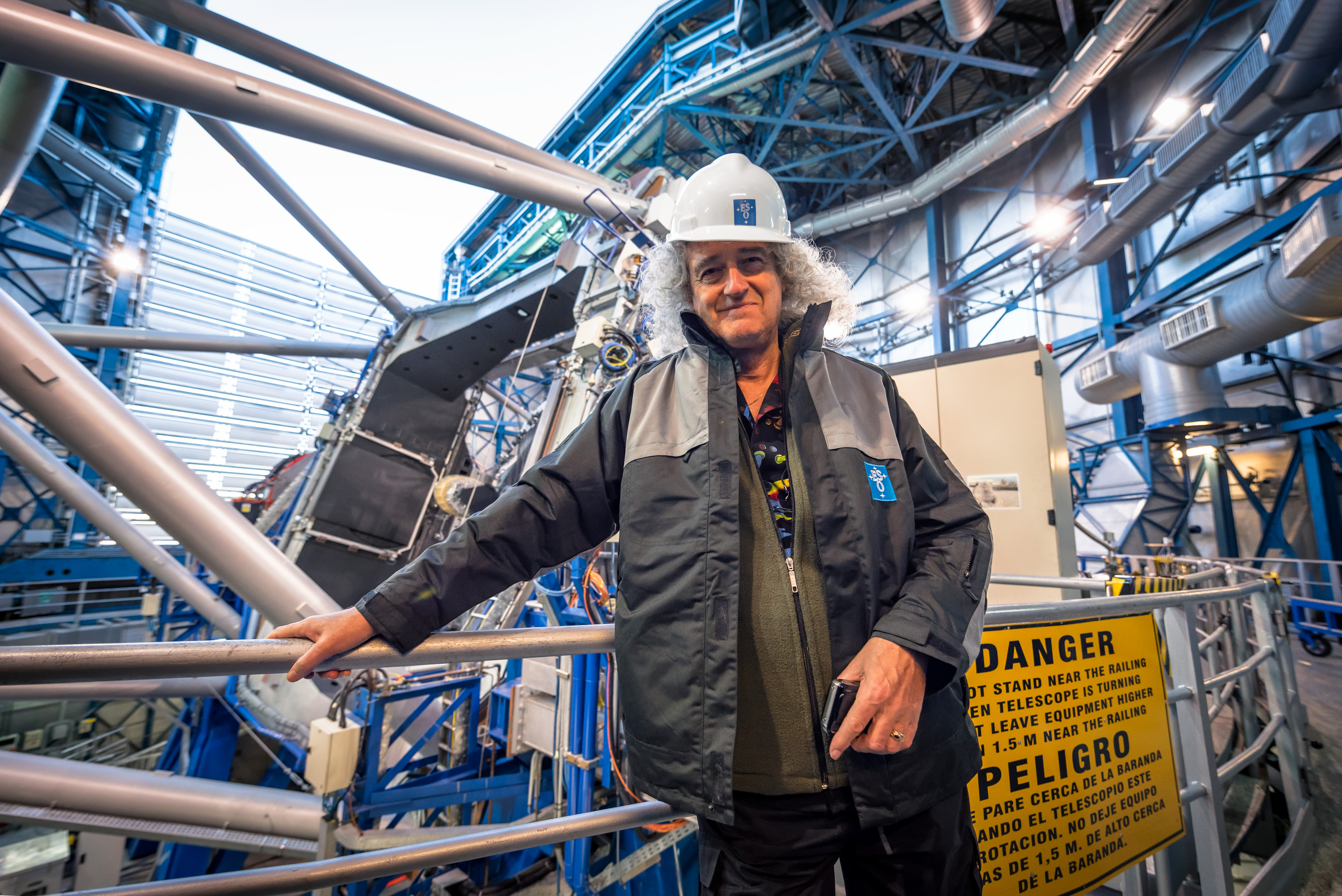 On 28 and 29 September 2015, ESO’s Paranal Observatory welcomed a very special visitor — British rock guitarist, singer, songwriter and astrophysicist, Brian May. Famed for being the lead guitarist of the legendary rock band Queen — May also has a passion for astronomy. This picture shows Brian May in one of the domes of the ESO Very Large Telescope.